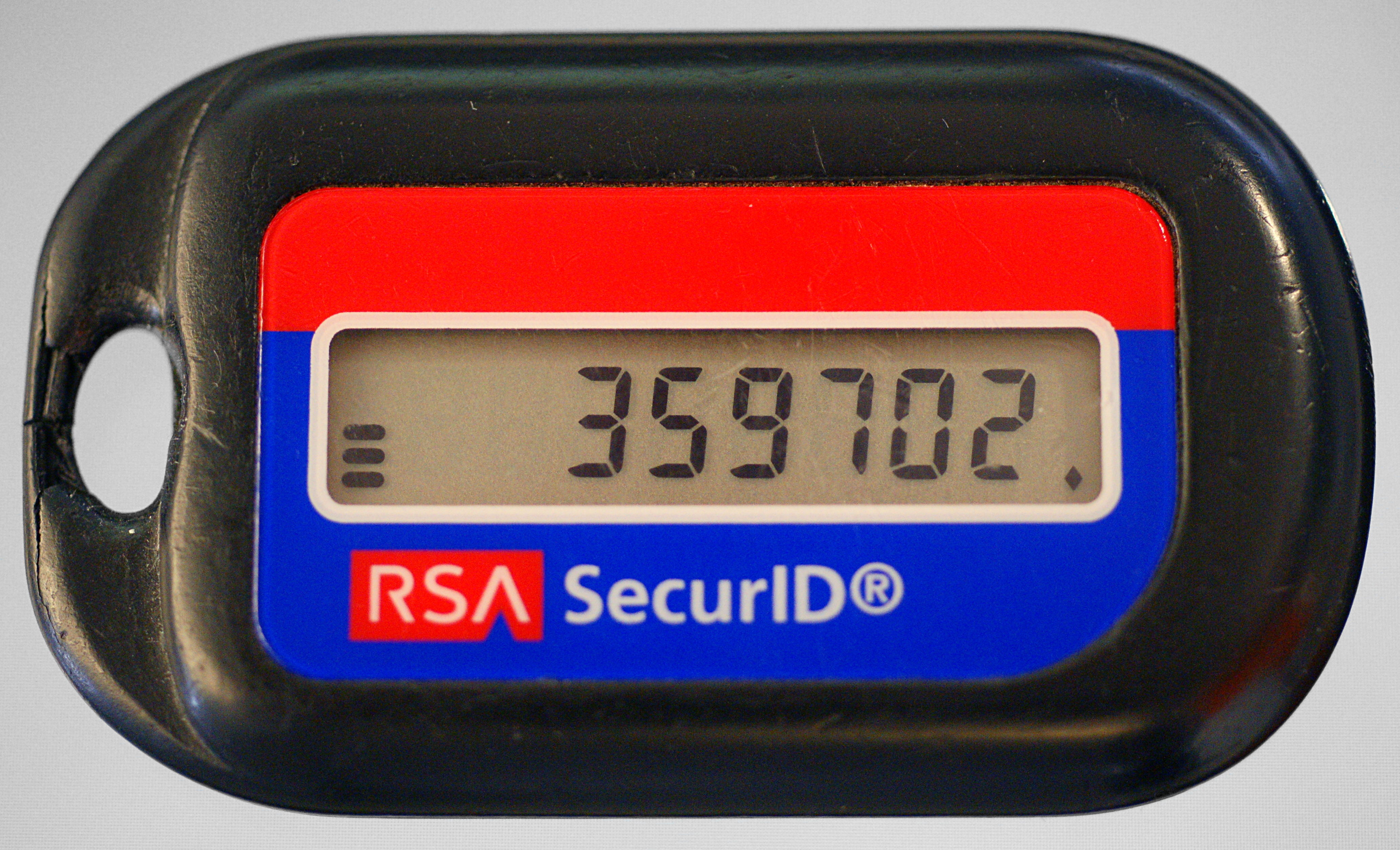 An older RSA SecurID token without USB connector